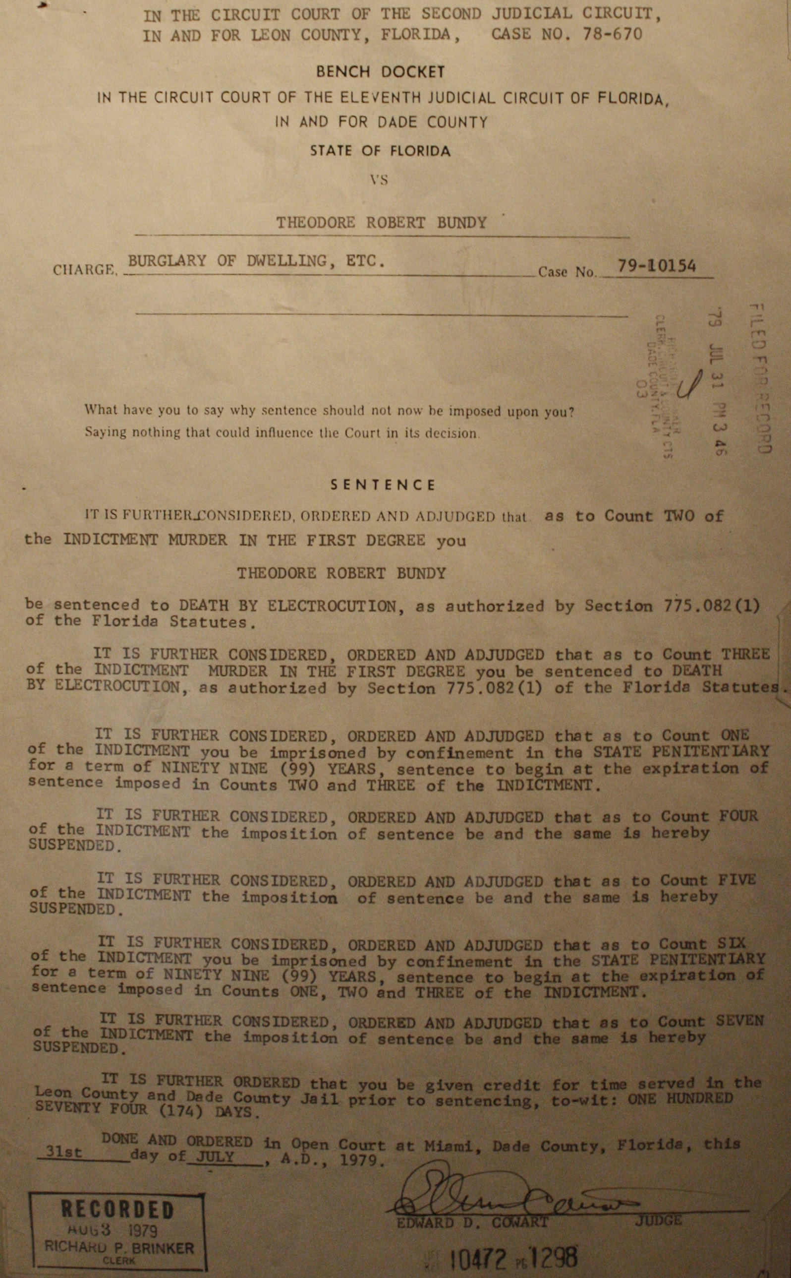 Bench Docket sentencing Theodore "Ted" Bundy for the crimes he was convicted of in the Chi Omega murders of Jan. 15, 1978. Includes a death sentence for the murders of Lisa Levy and Margaret Bowman. Bundy was executed for the murder of Kimberly Leach in 1989.